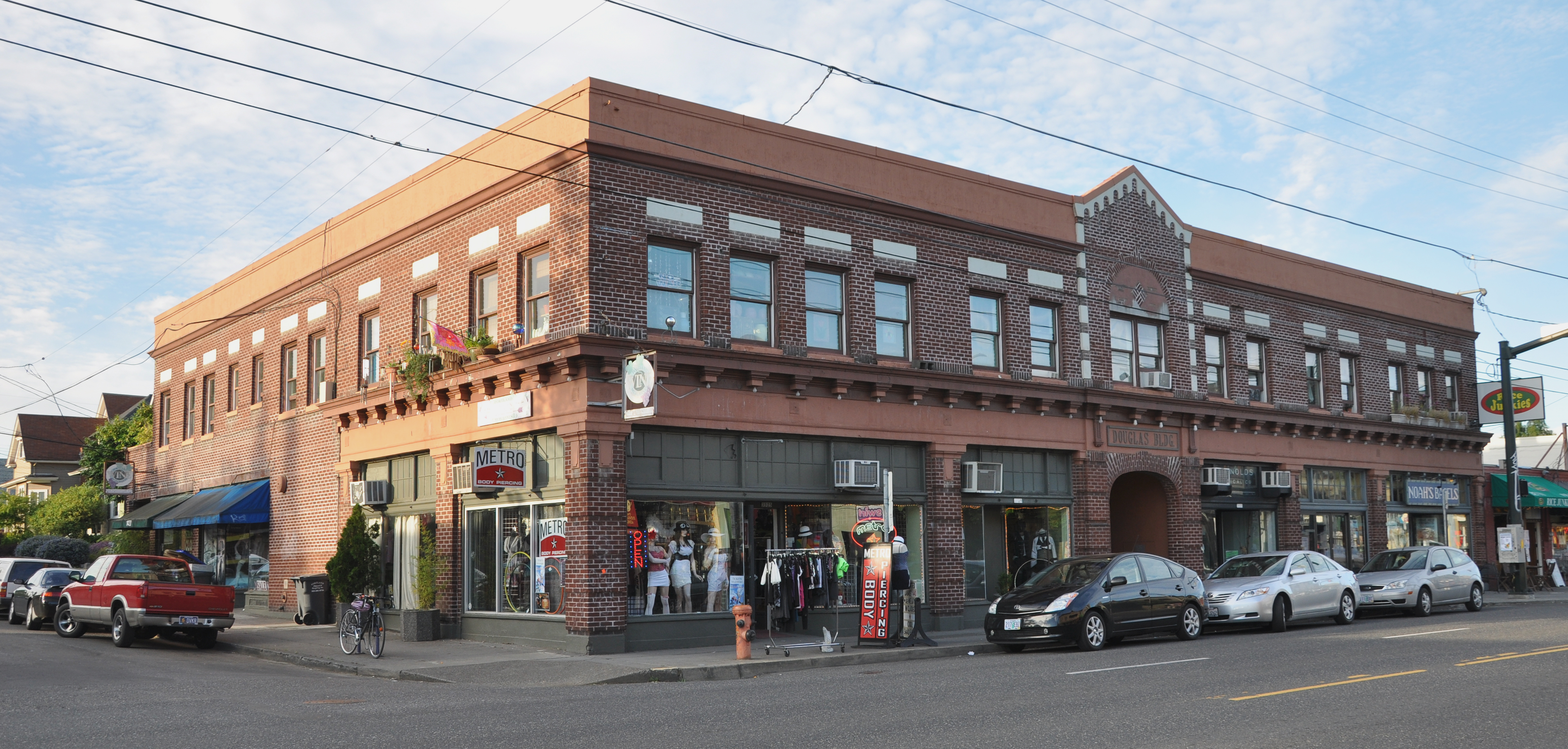 Douglas Building in Portland in the U.S. state of Oregon. The structure is listed on the National Register of Historic Places.